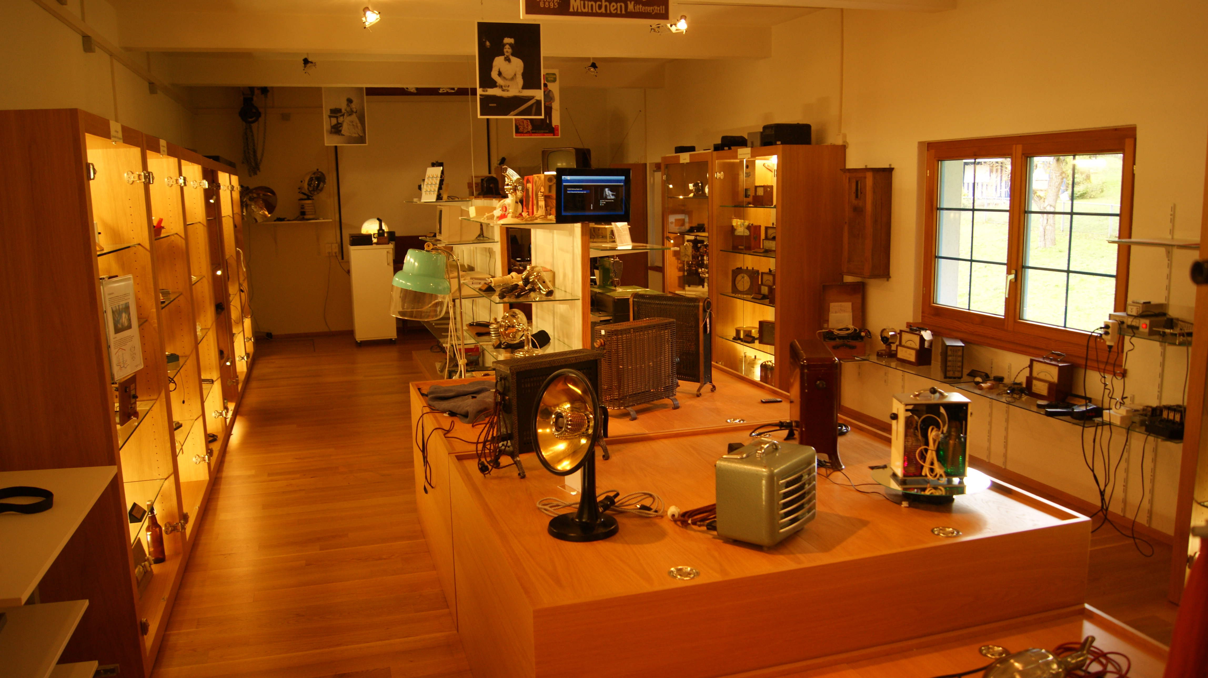 Lawena Museum, Triesen, Principality of Liechtenstein - Exhibition on the second floor.